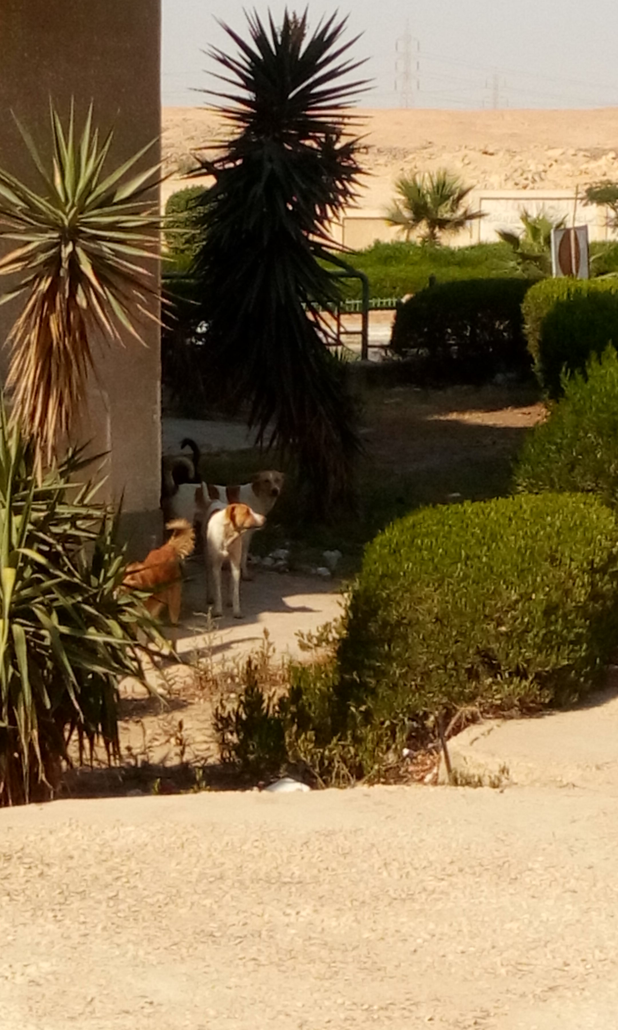 Dogs in First settelement ,New Cairo